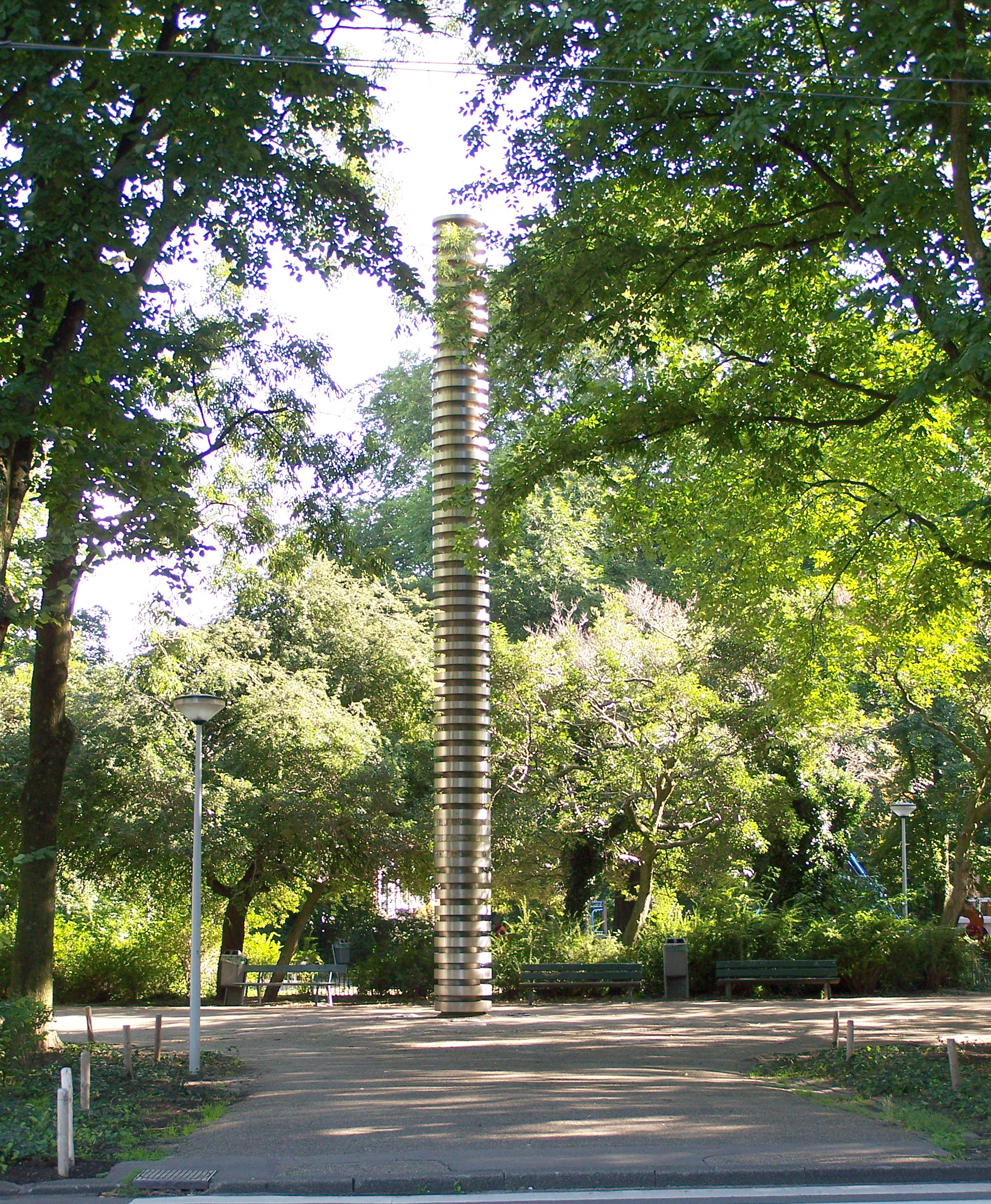 Monument for Anthony Winkler Prins, founder of the Dutch encyclopedia. Made by André Volten in 1970 and placed at the Frederiksplein in Amsterdam. It's also known as the "knakenpaal" (coin pole).